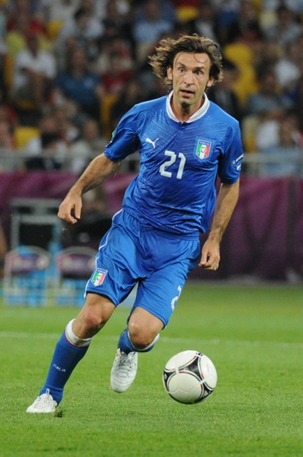 Andrea Pirlo at Euro 2012 match against England